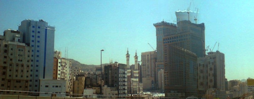 A Skyline Image of Mecca